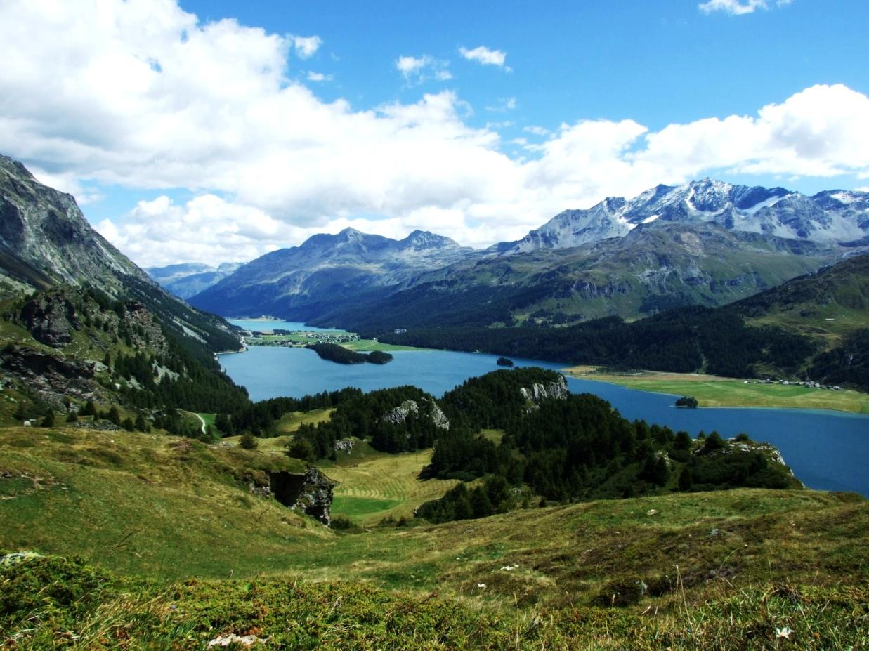 Lake Sils, Graubünden